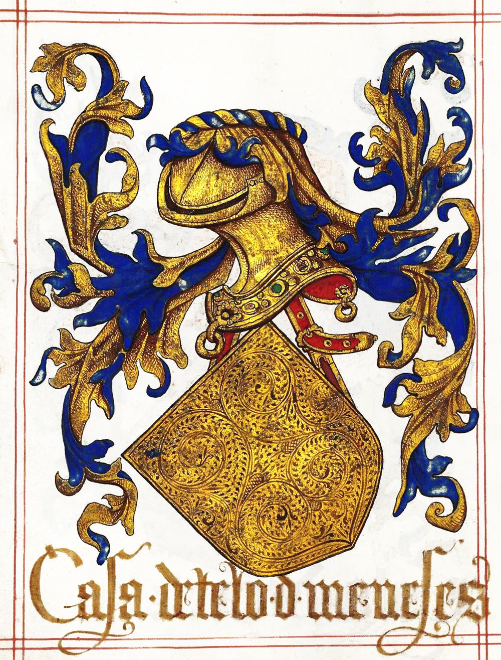 Count of Cantanhede